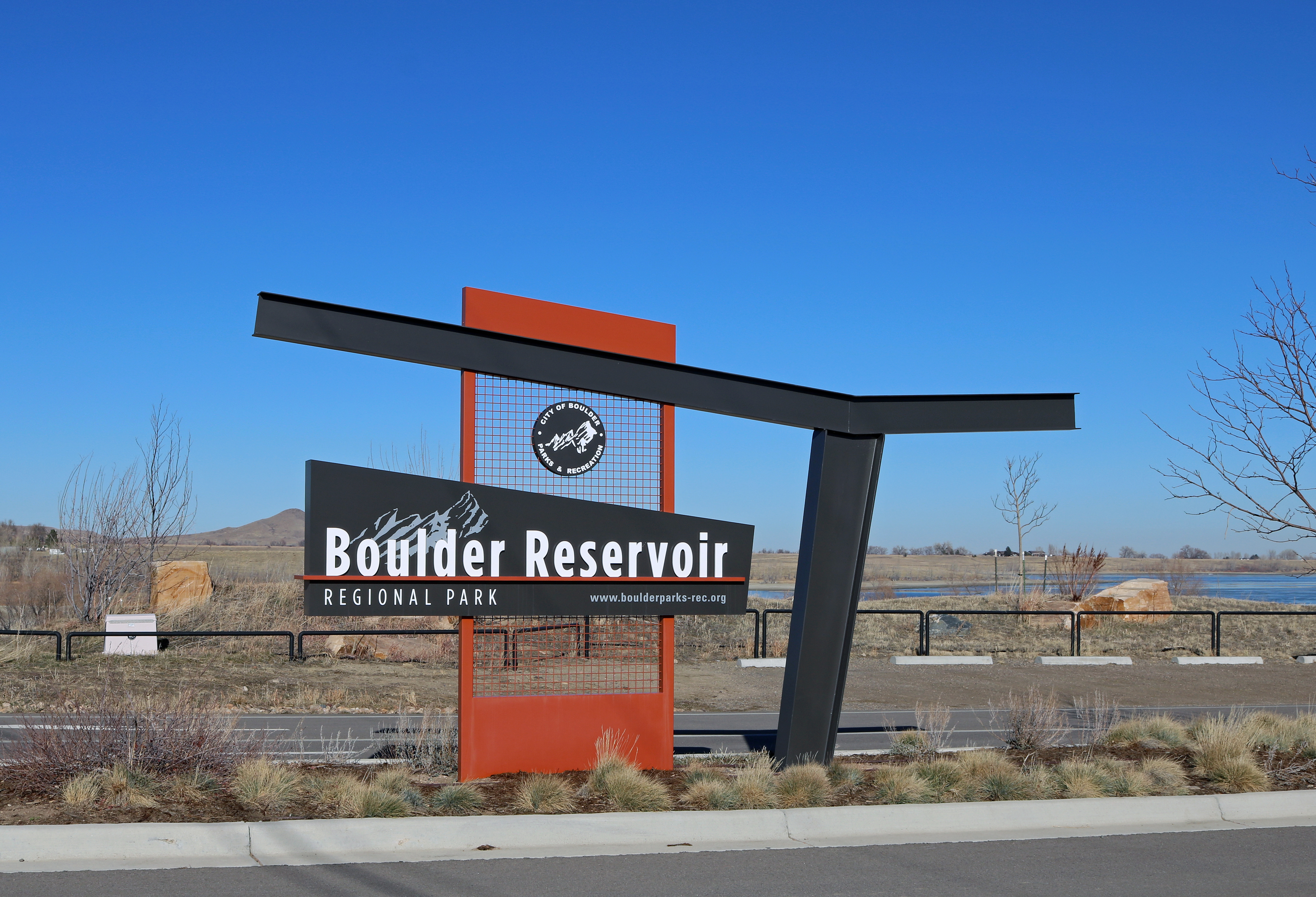 The sign for Boulder Reservoir Regional Park in Boulder, Colorado. Part of the reservoir can be seen in the background.